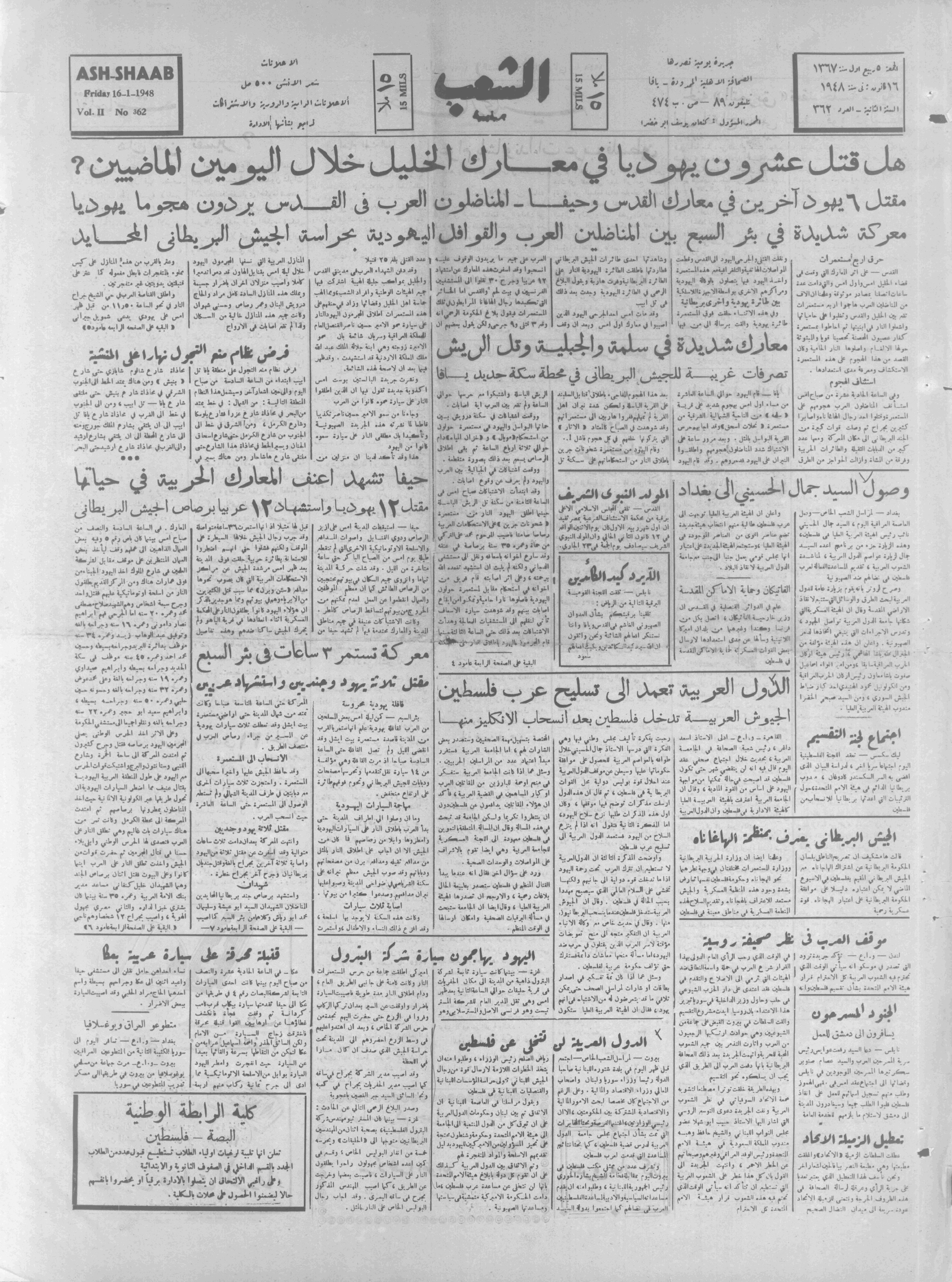 Palestinian newspaper